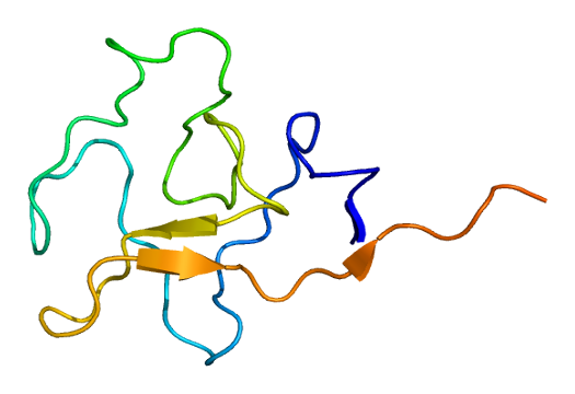 Structure of the LPA protein. Based on PyMOL rendering of PDB 1i71.